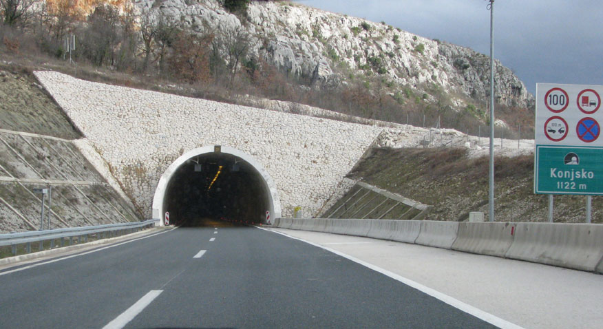 Konjsko Tunnel on A1 highway in Croatia